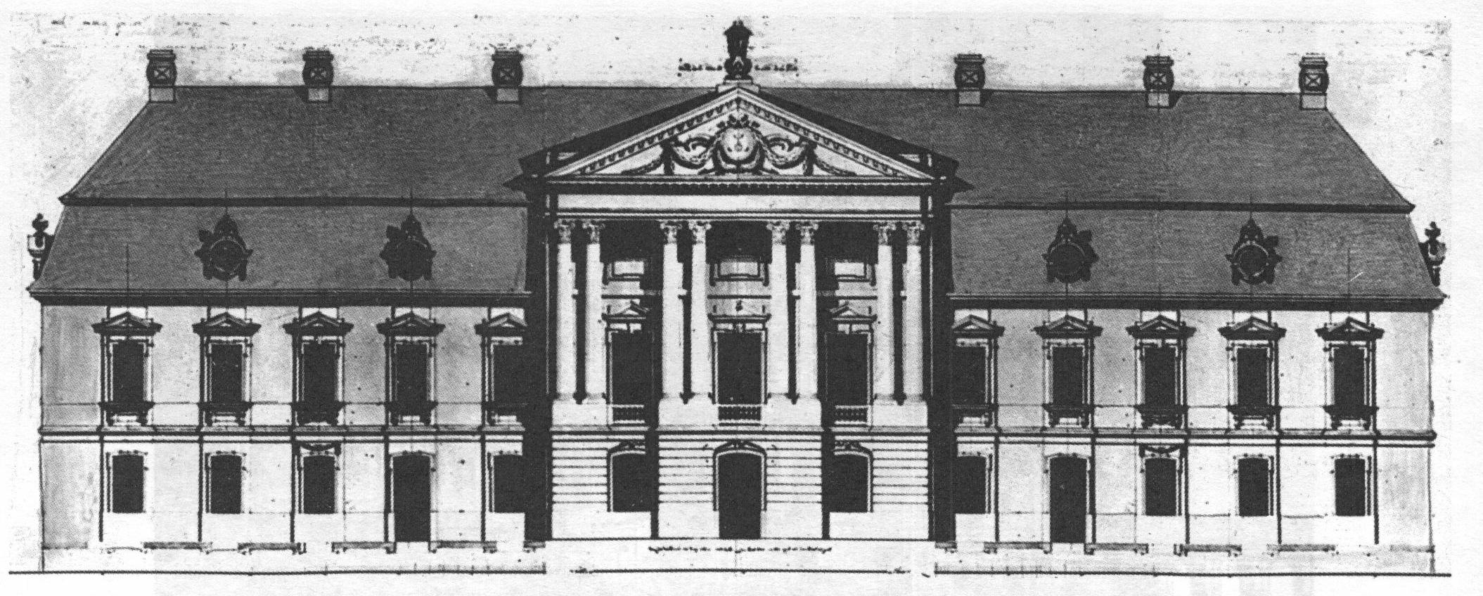 Projekt of Palace of Sapieha (Ruzhany, Belarus)